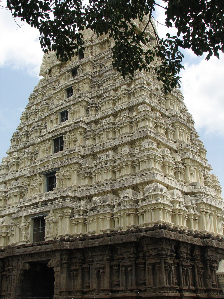 The Jalakandeswara Temple in the Vellore Fort in Vellore, Tamil Nadu